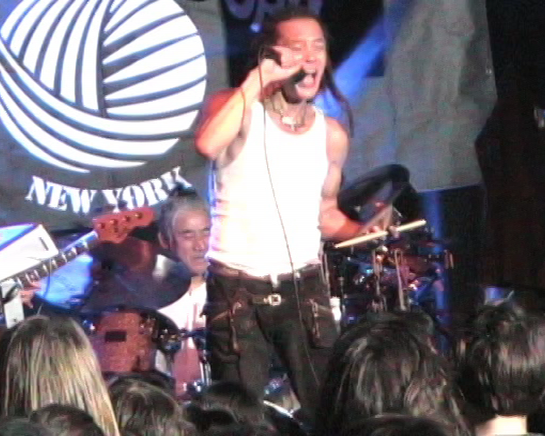 Joe Yamanaka at the Knitting Factory in 2009